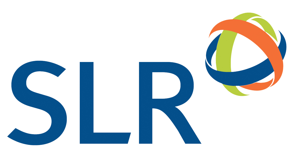 SLR Logo 2018